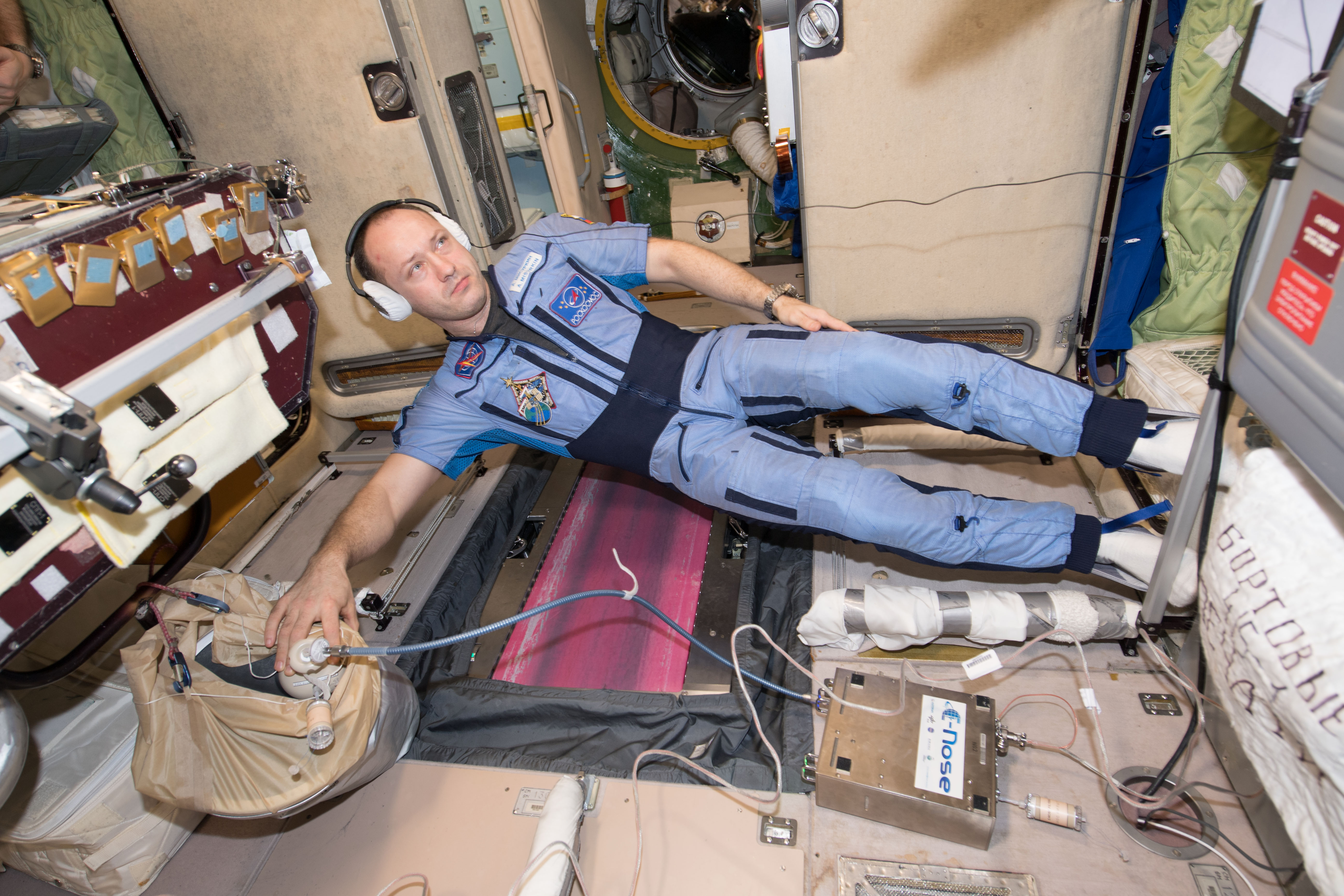 Flight Engineer Alexander Misurkin from Roscosmos works with the JPL Electronic Nose (ENose) experiment in the Zvezda service module. ENose is a full-time, continuously operating event monitor designed to detect air contamination from spills and leaks in the crew habitat of the International Space Station. It fills the long-standing gap between onboard alarms and complex analytical instruments. ENose provides rapid, early identification and quantification of atmospheric changes caused by chemical species to which it has been trained. ENose can also be used to monitor cleanup processes after a leak or a spill.